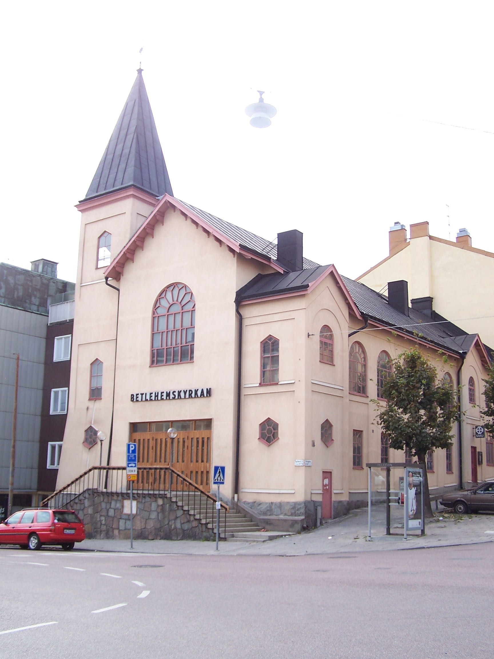 Svenska Missionskyrkan, Betlehemskyrkan, Sundbybergl, Sweden